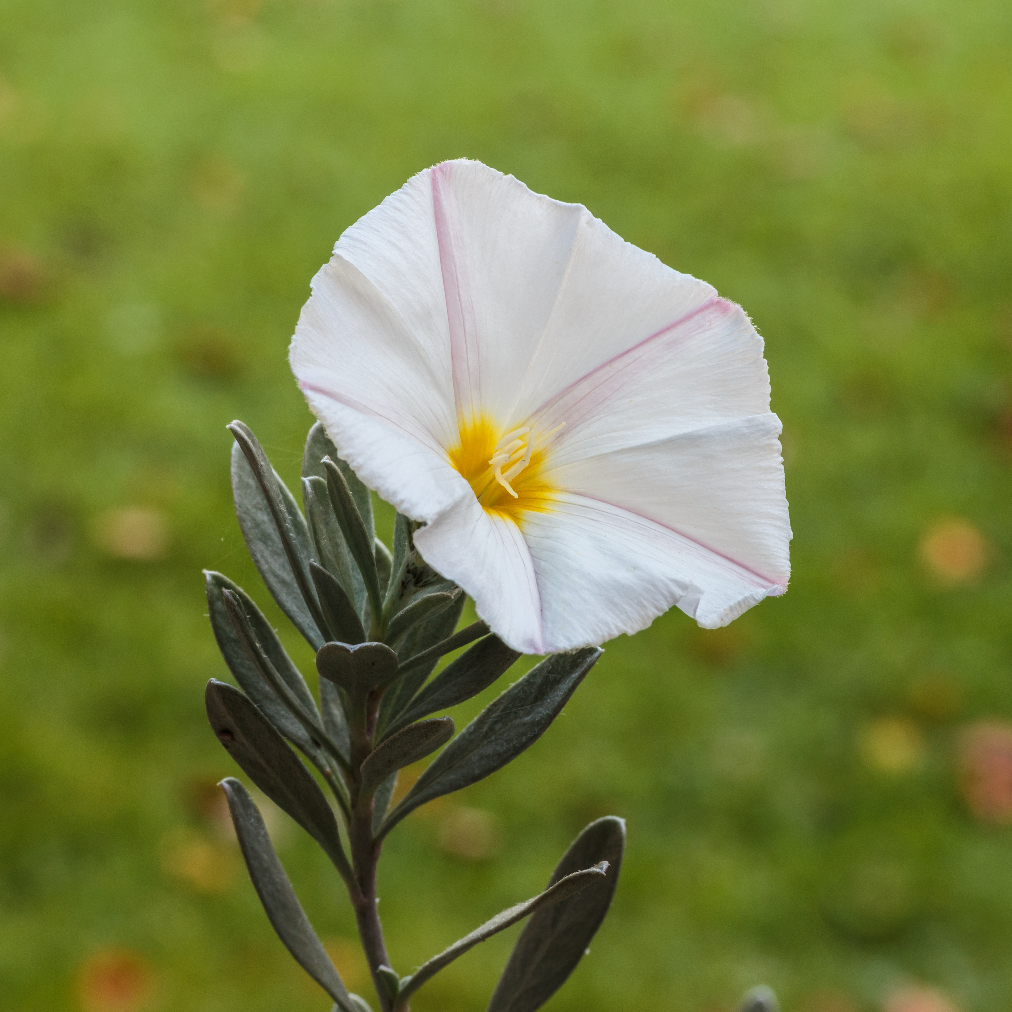 Flower of Convolvulus cneorum (Zilverwinde). Location, garden reserve Jonker valley.